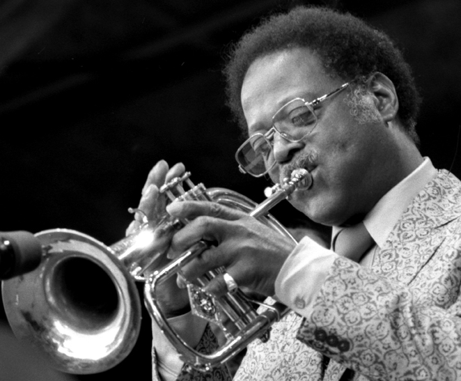 Trumpeter/Flugelhornist Clark Terry performing at Monterey (CA) Jazz Festival, 1981. Photo by Brian McMillen /